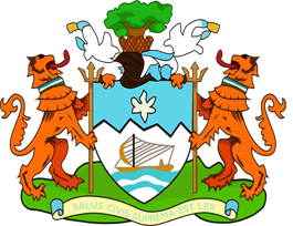 Coat of arms of the Freetown City Council, Sierra Leone